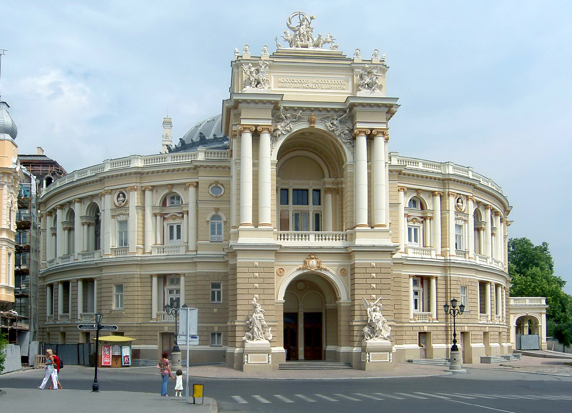 Odessa Opera Theatre.